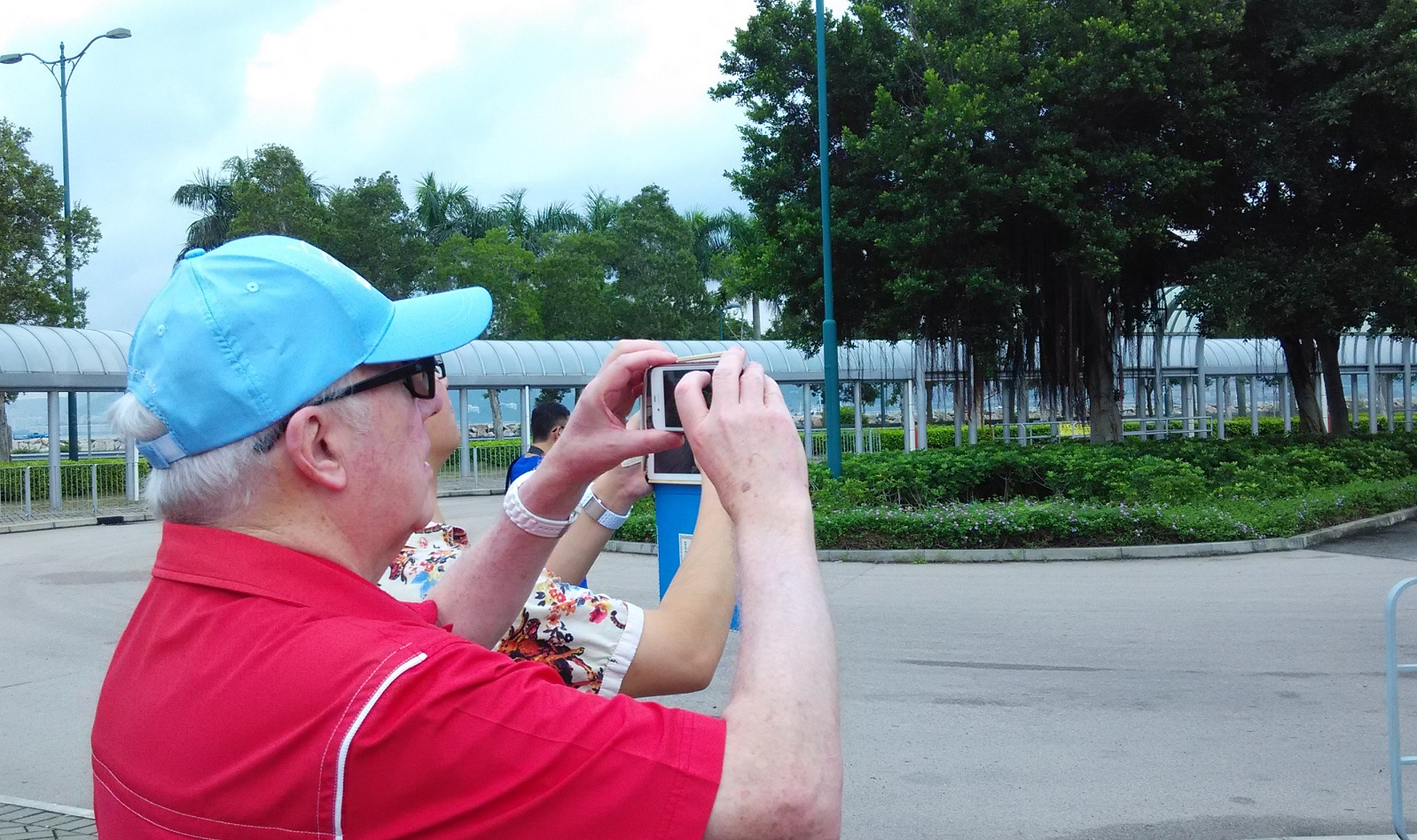 Lyndon Rees was taking a photo of new D.Bay Volvo B9TL Buses